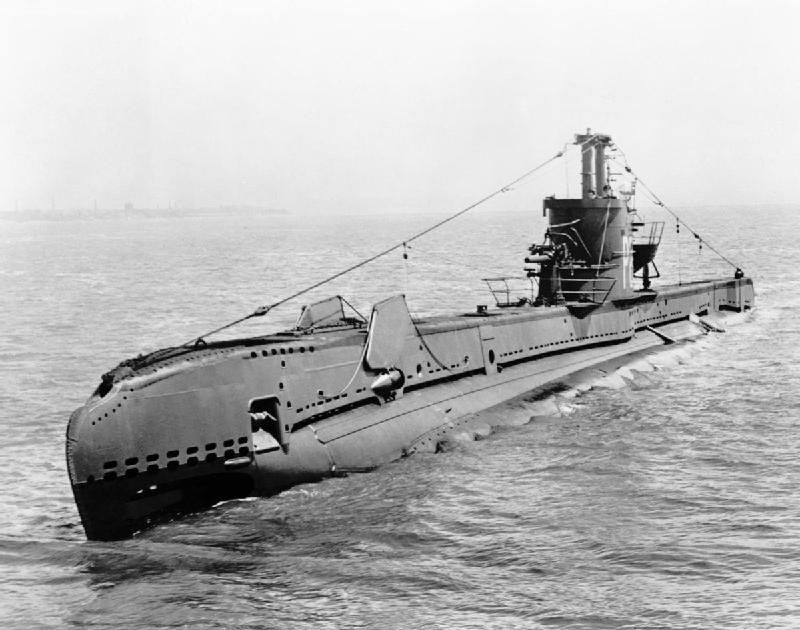 British S class submarine HMSM STONEHENGE underway.